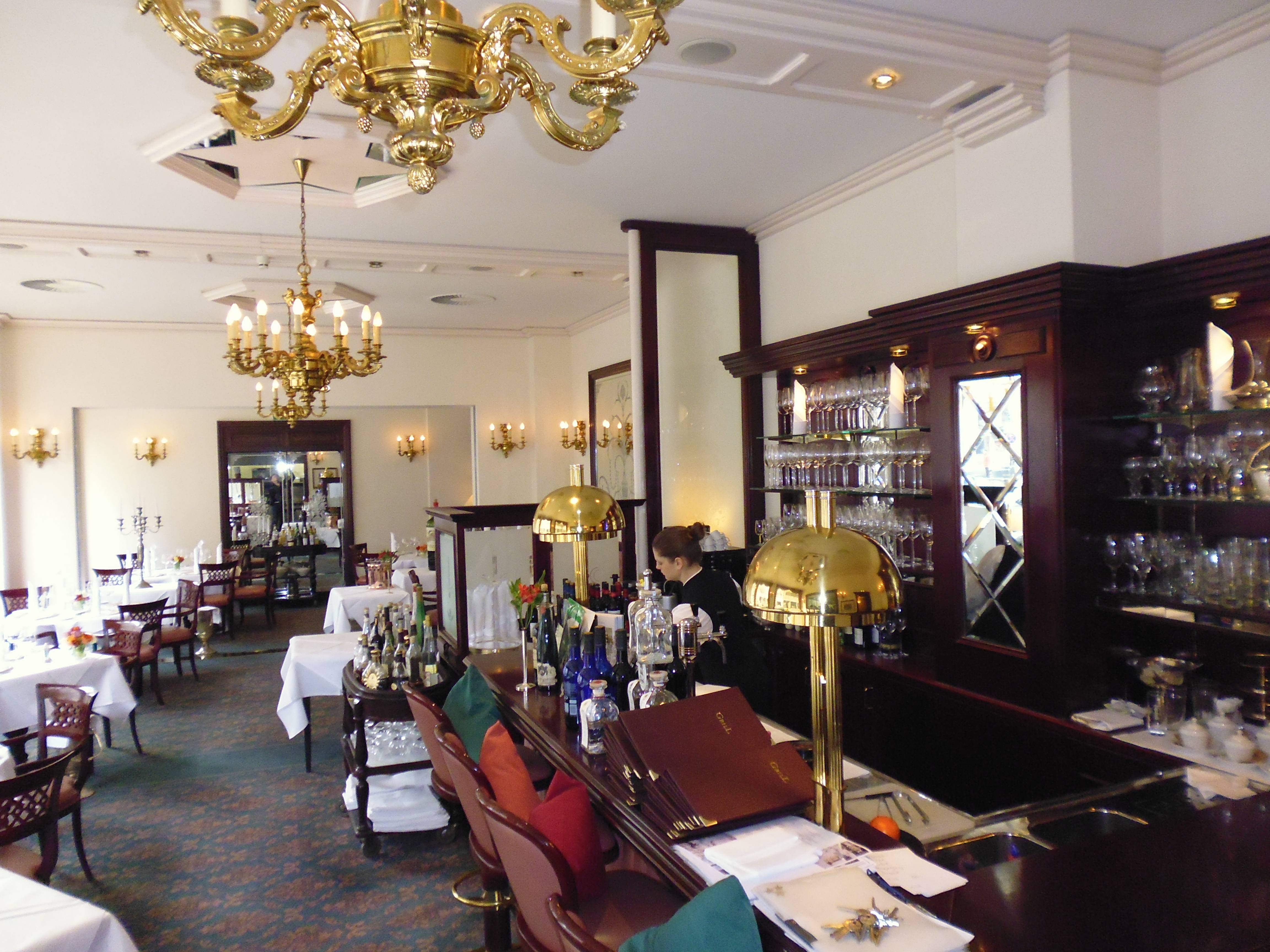 Kempinski Grill